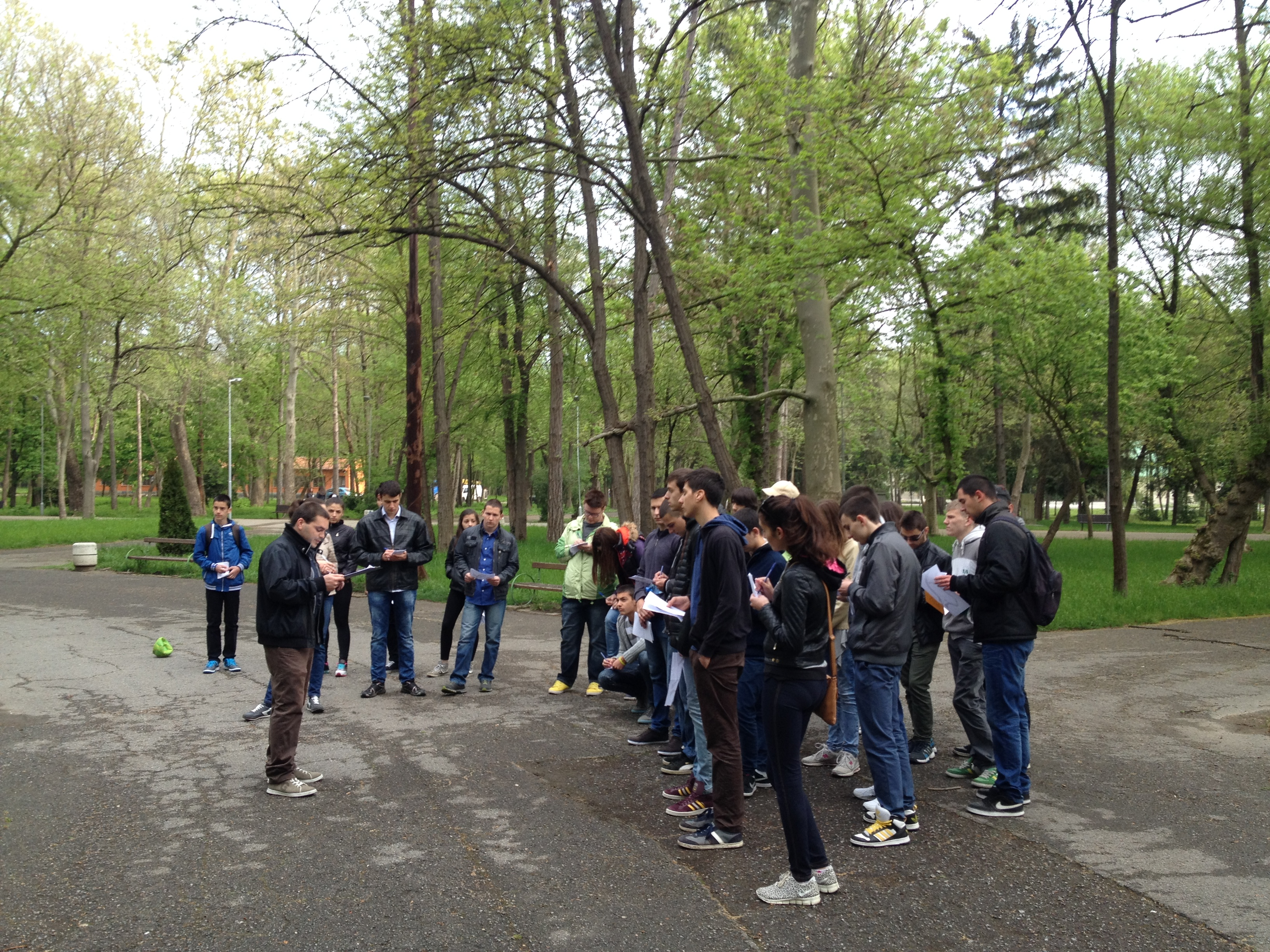 По време на индивидуалното състезание "Разходка с изненади"